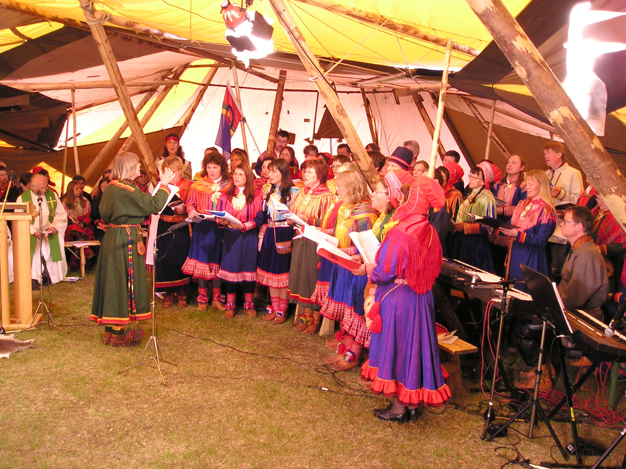 Sami Jienat, a Sami choir, at concert